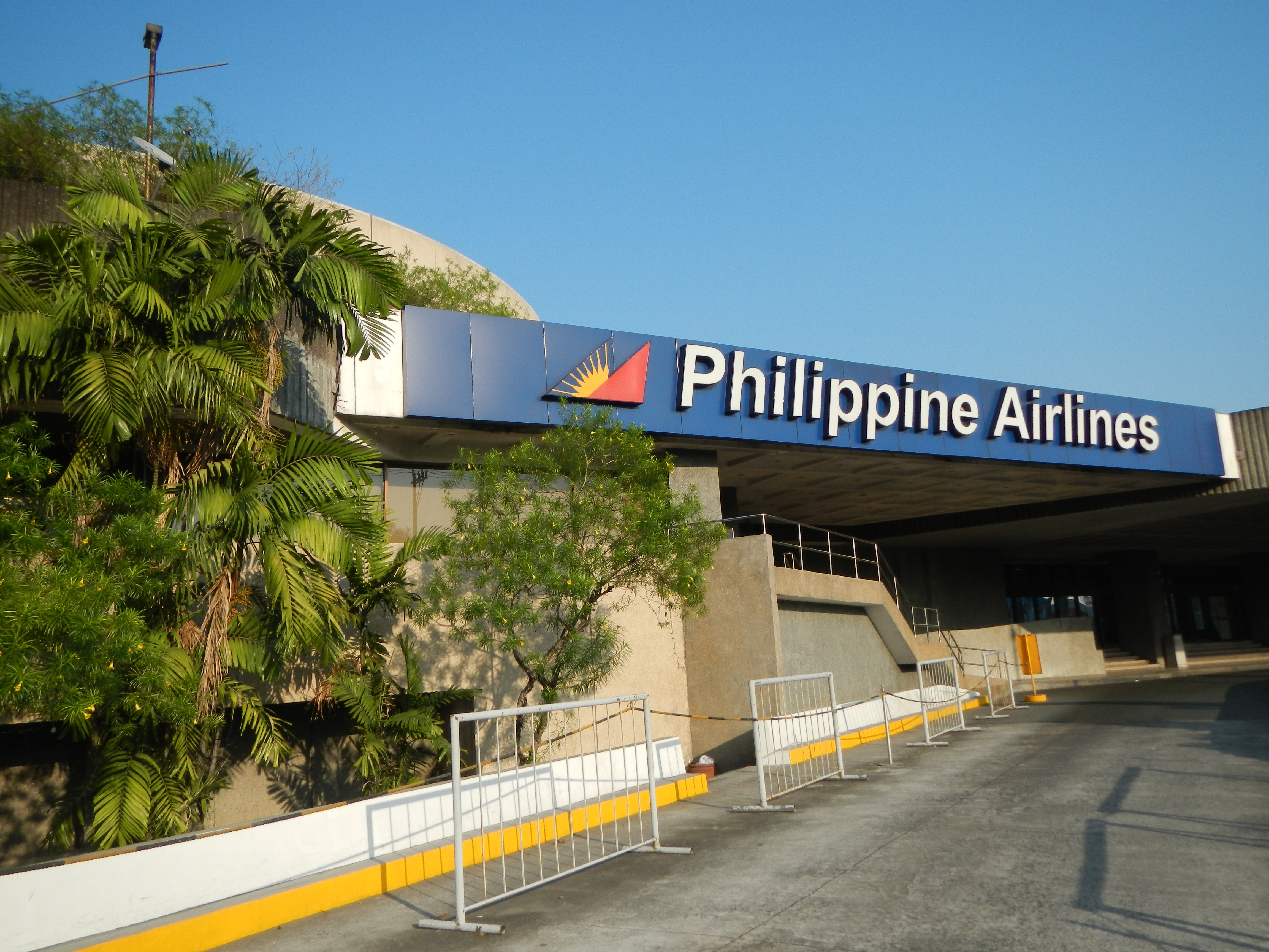 General Headquarters: Philippine Airlines location PNB Financial Center Pres. Diosdado Macapagal Avenue CCP Complex, Pasay City[1] - PAL PNB Ticket Office PNB Financial Center Office Hours: Mondays to Fridays: 08:30-17:00 Saturdays: 08:30-12:00 [2][3] Groundfloor of the PNB FC Philippine Airlines[4]